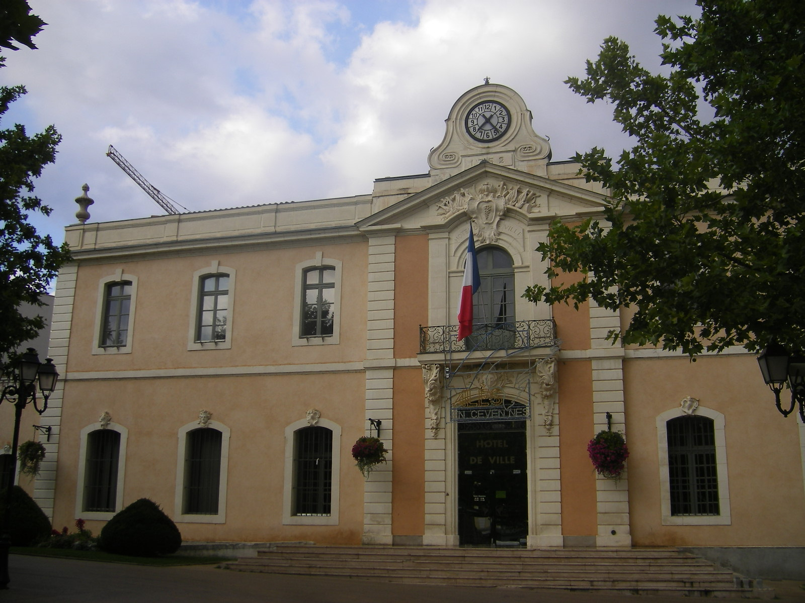 Alès - Town hall